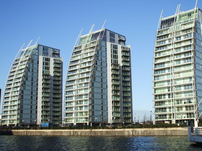 The NV Buildings, at Salford Quays, Greater Manchester, England